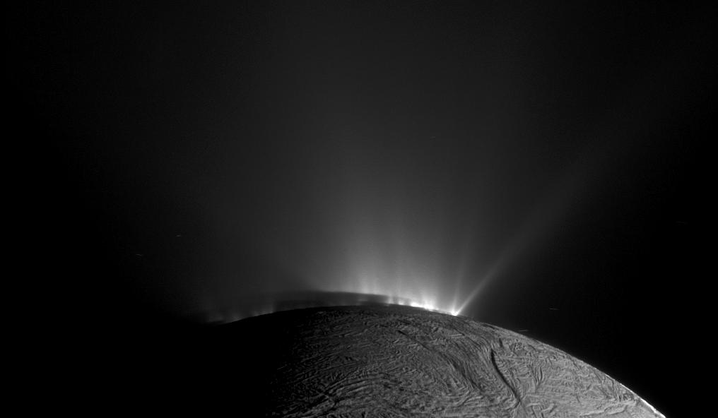 Caption released with image: This Cassini narrow-angle camera image -- one of those acquired in the survey conducted by the Cassini imaging science team of the geyser basin at the south pole of Enceladus -- was taken as Cassini was looking across the moon's south pole. At the time, the spacecraft was essentially in the moon's equatorial plane. The image scale is 1280 feet (390 meters) per pixel and the sun-Enceladus-spacecraft, or phase, angle is 162.5 degrees. The image was taken through the clear filter of the narrow angle camera on Nov. 30, 2010, 1.4 years after southern autumnal equinox. The shadow of the body of Enceladus on the lower portions of the jets is clearly seen. In an annotated version of the image, the colored lines represent the projection of Enceladus' shadow on a plane normal to the branch of the Cairo fracture (yellow line), normal to the Baghdad fracture (blue line) and normal to the Damascus fracture (pink line). Post-equinox images like this, clearly showing the different projected locations of the intersection between the shadow and the curtain of jets from each fracture, were useful for scientists in checking the triangulated positions of the geysers, as described in a paper by Porco, DiNino, and Nimmo, and published in the online version of the Astronomical Journal in July 2014: A companion paper, by Nimmo et al. is available at